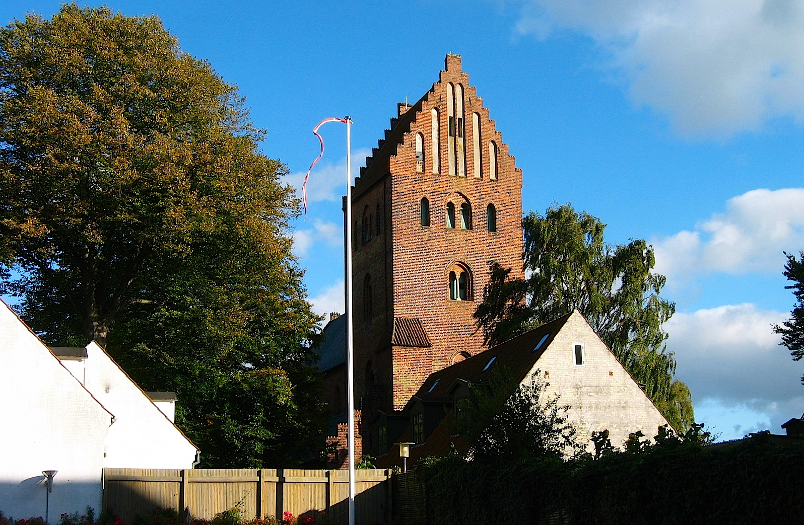 Roskilde, Denmark. The Church of Our Lady.